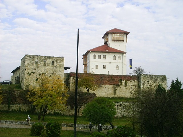 Town of Gradačac, Bosnia and Herzegovina, Husejn Gradaščević fortress